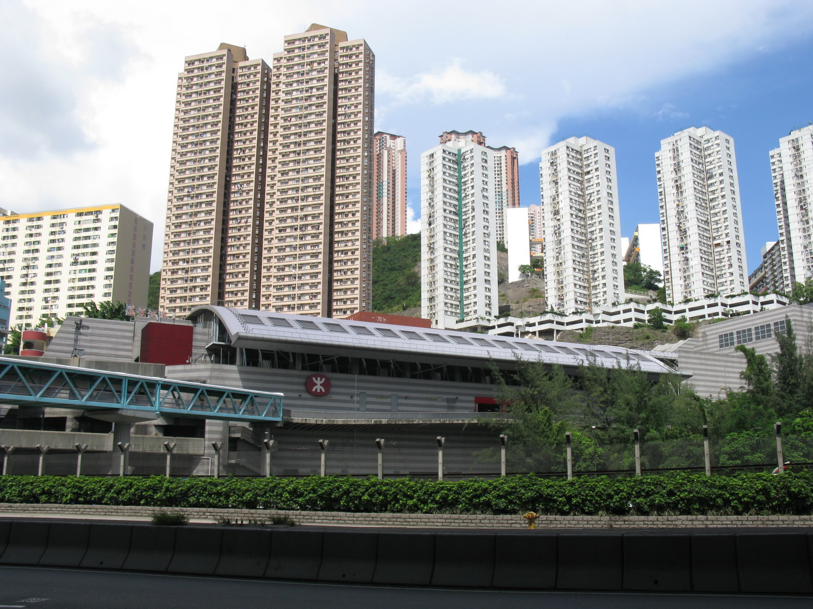 Lai King Station